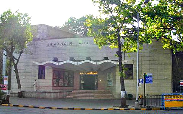 This Art gallery is one of the prestigious exhibition sites in Mumbai